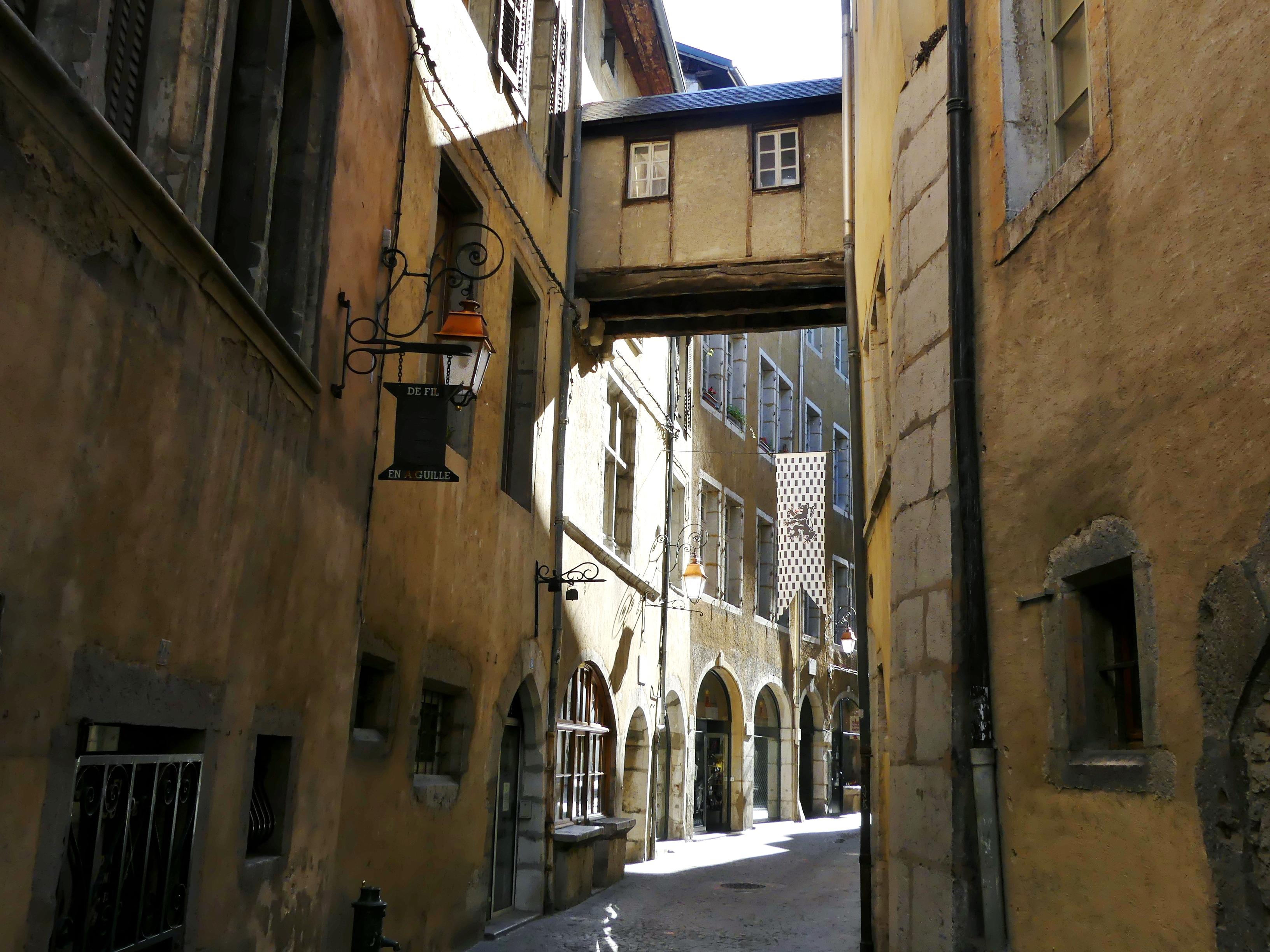 Sight, in the morning, of the medieval Rue Basse du Château street at the foot of the Chambéry castle, in Savoie, France.